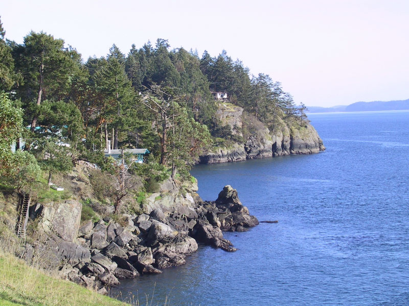 Looking down the shore on Pender Island